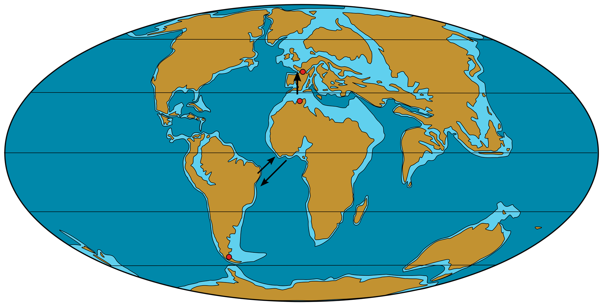 A map showing the dispersal of the terror birds during the Eocene.